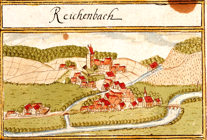 View of Reichenbach an der Fils from the forest register books created by Andreas Kieser